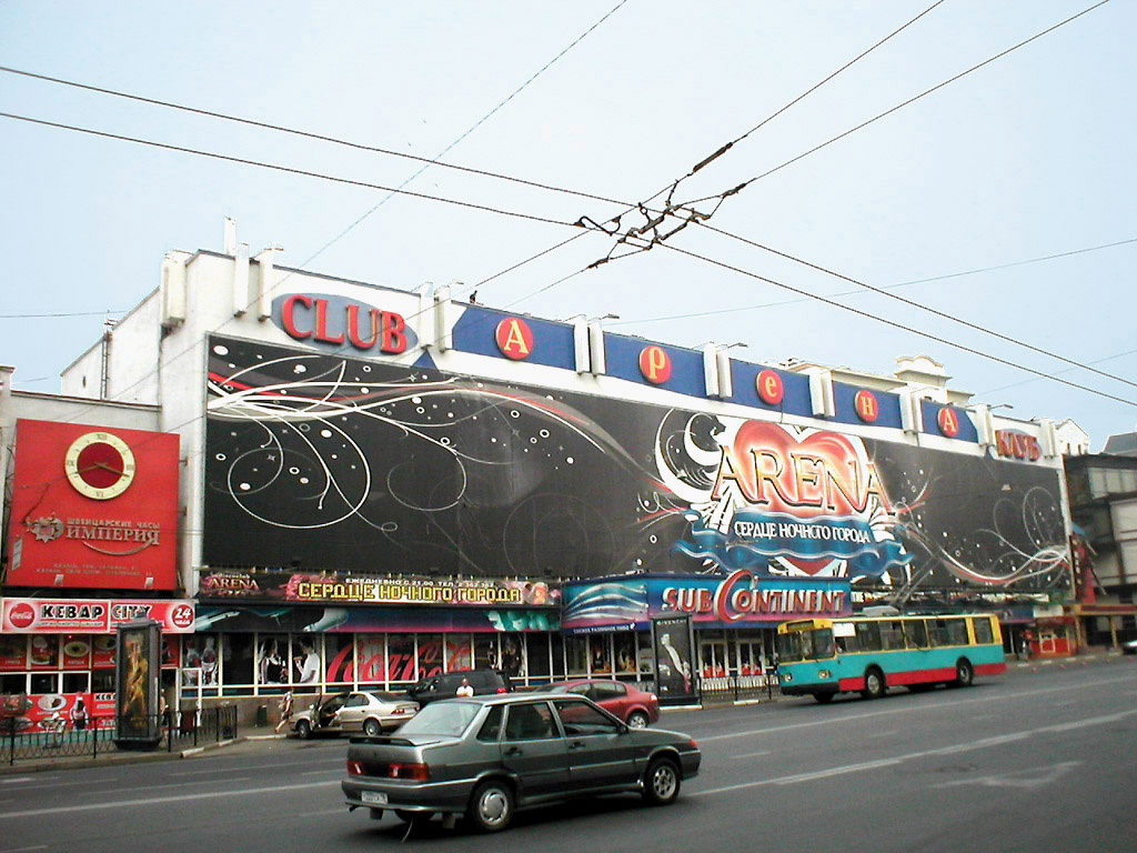 entertaining complex Arena in Kazan